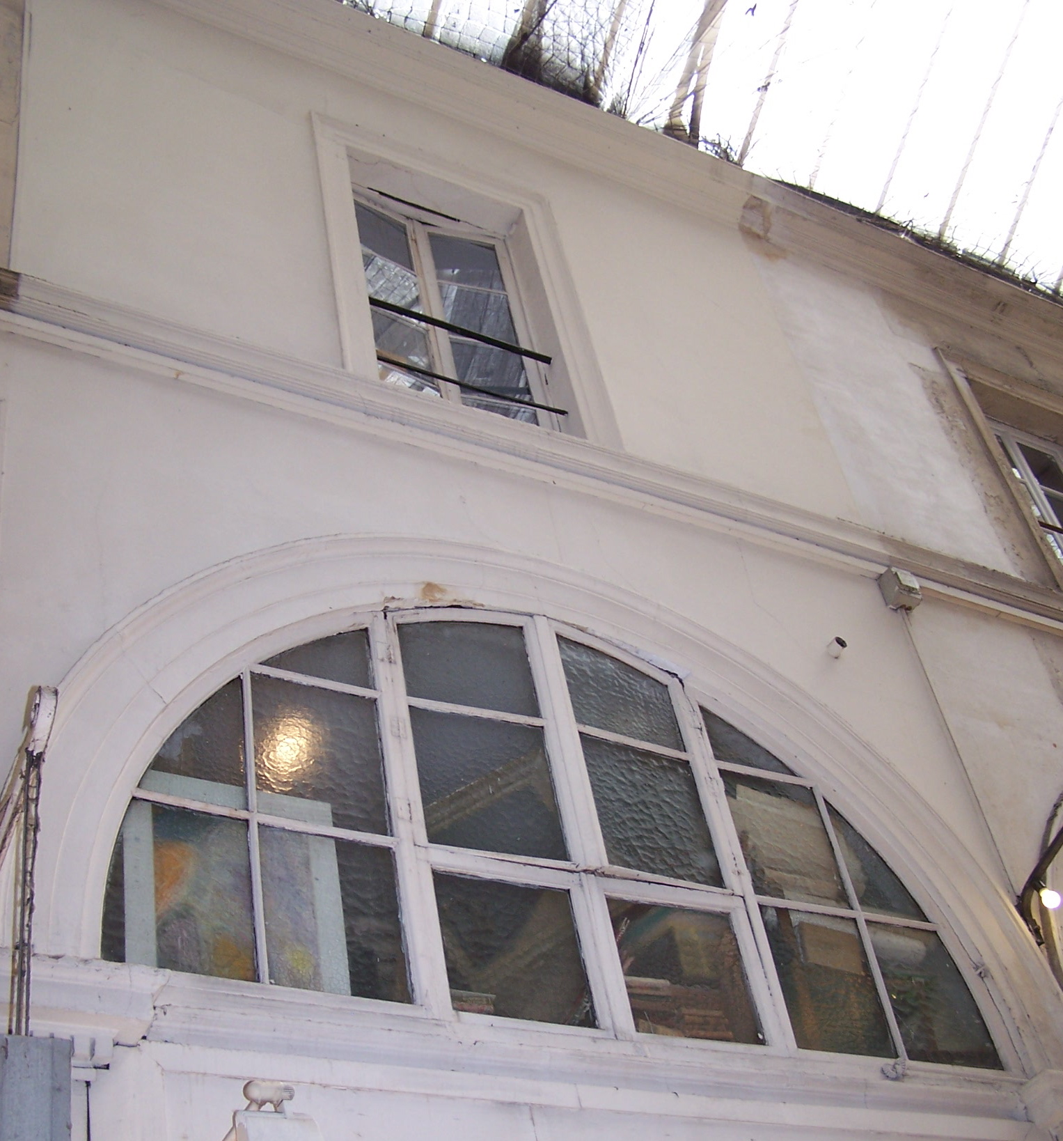 House at 64, passage de Choiseul where french writer Louis-Ferdinand Céline lived as a child from 1899 to 1907